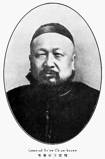 Cen Chunxuan(1861 - 1933)